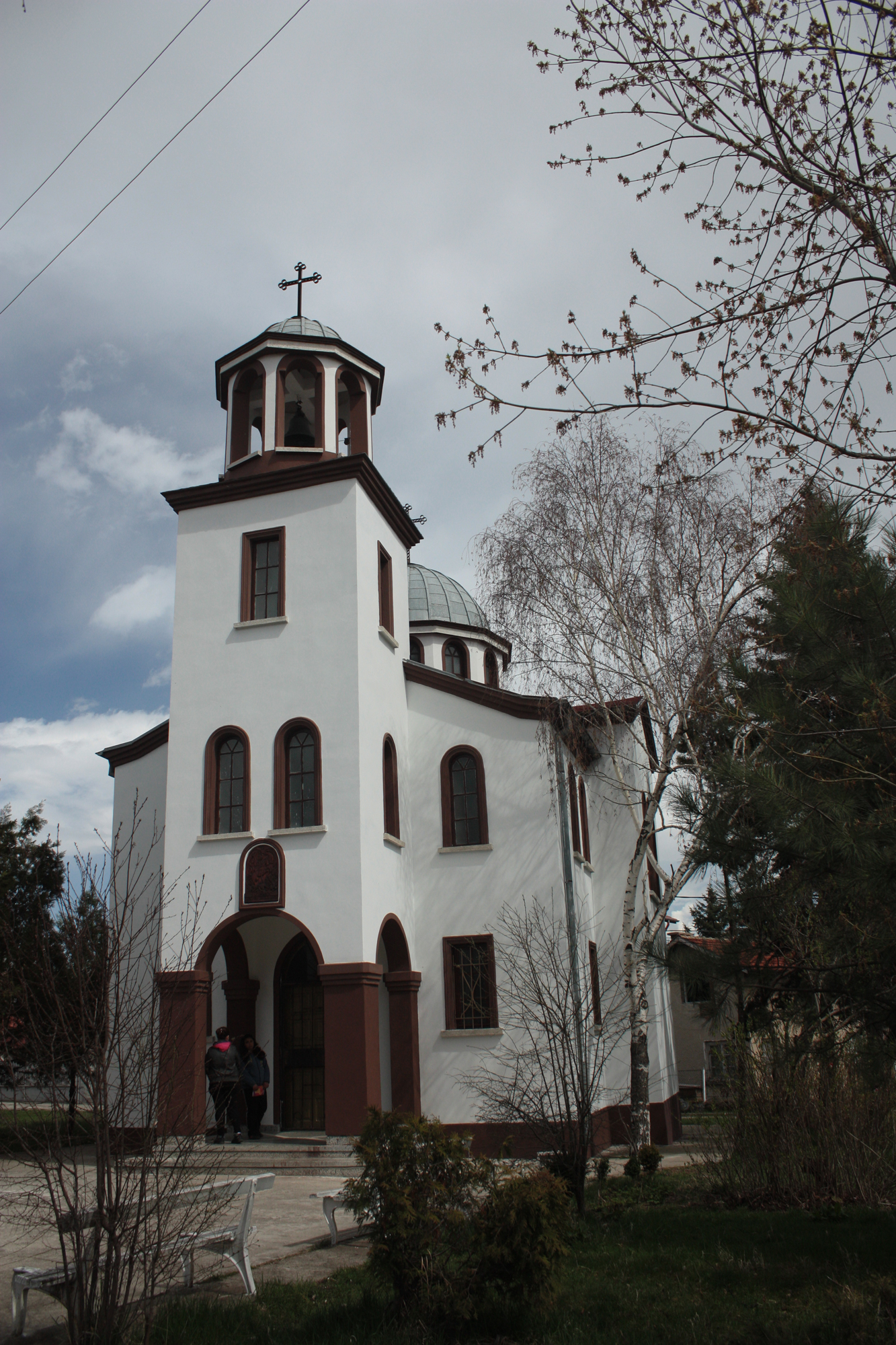 Saint George Church in Voluyak